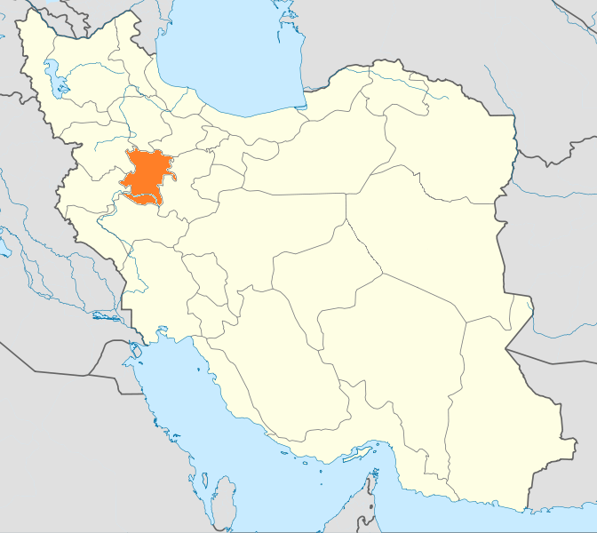 Locator map of Iran